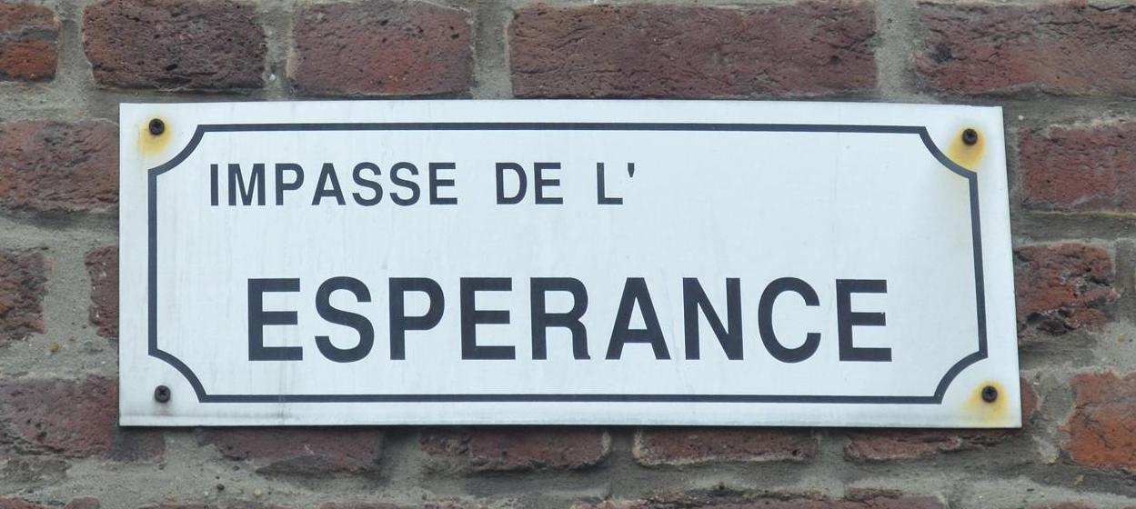 Ancient gate of the Esperance coal mine in Saint-Nicolas, Belgium